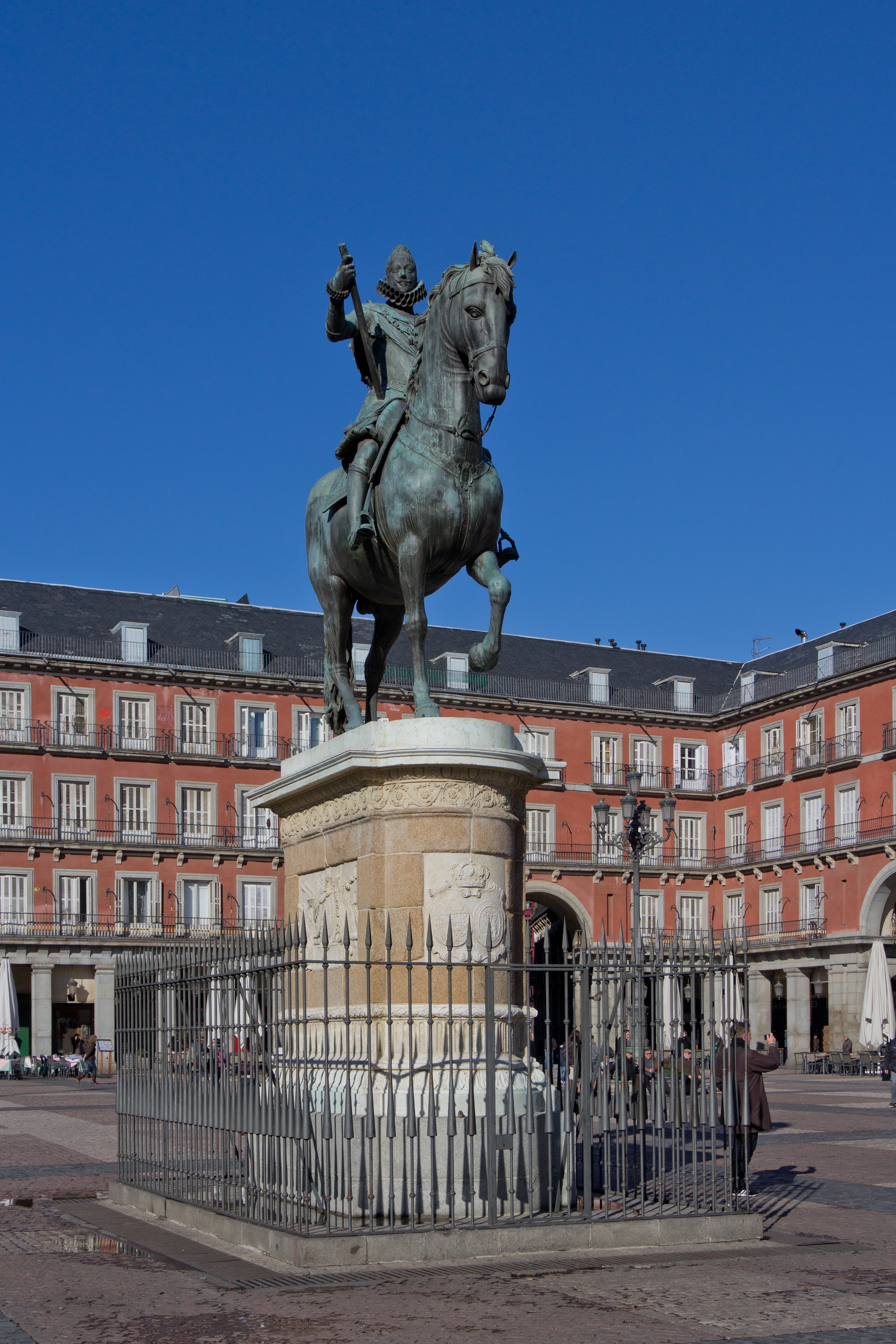 Plaza Mayor, Madrid, Spain.